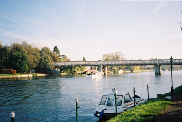 River Thames - Bourne End railway bridge. The bridge carries the Marlow branch line